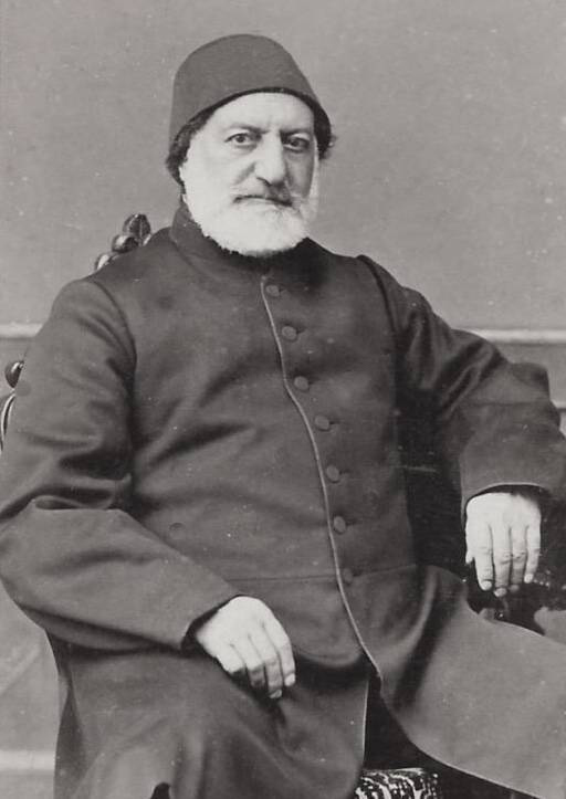 Yusuf Kâmil Paşa (1808-1876) Grand Vizier of the Ottoman Empire